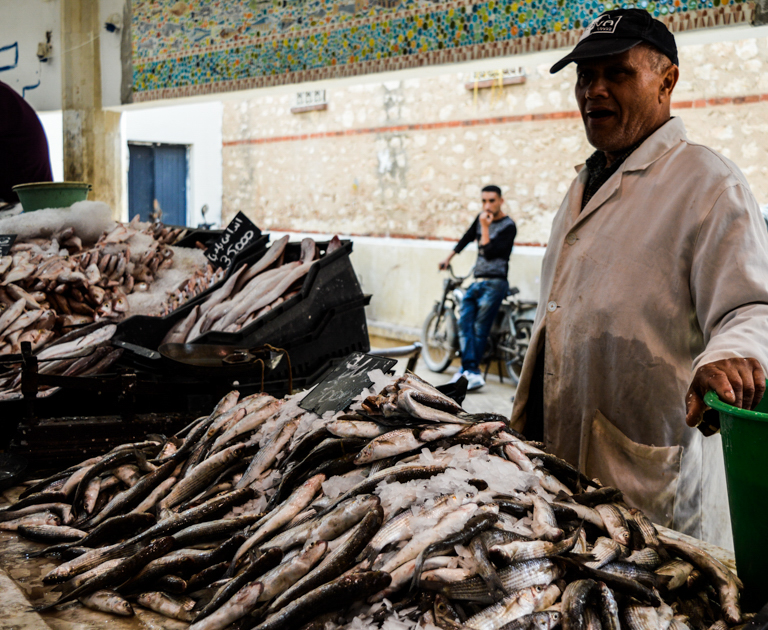 Picture from Souk El Hout (fish market) in Sfax Tunisia